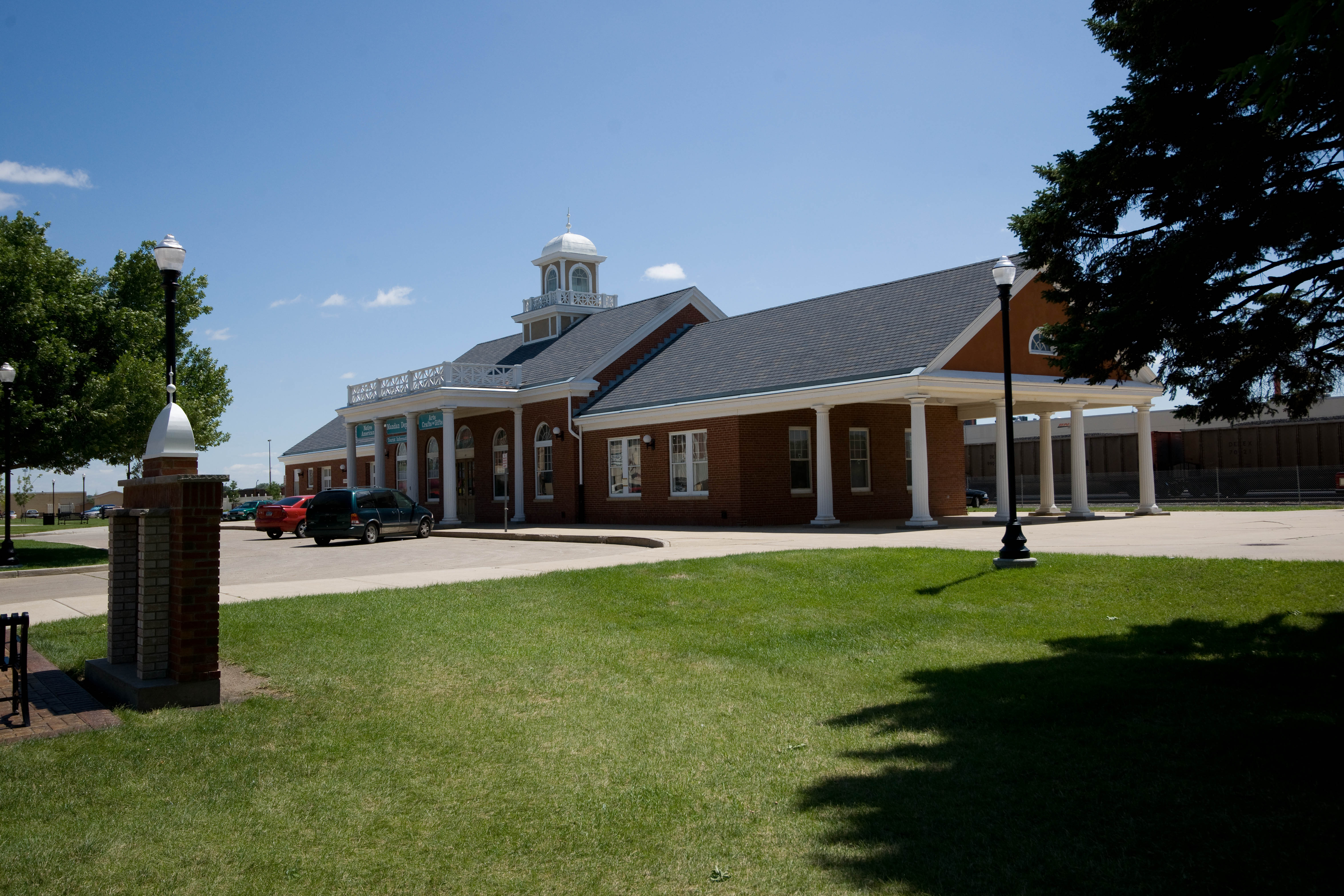 Northern Pacific Depot within the NRHP-listed Mandan Commercial Historic District, in Mandan, North Dakota.